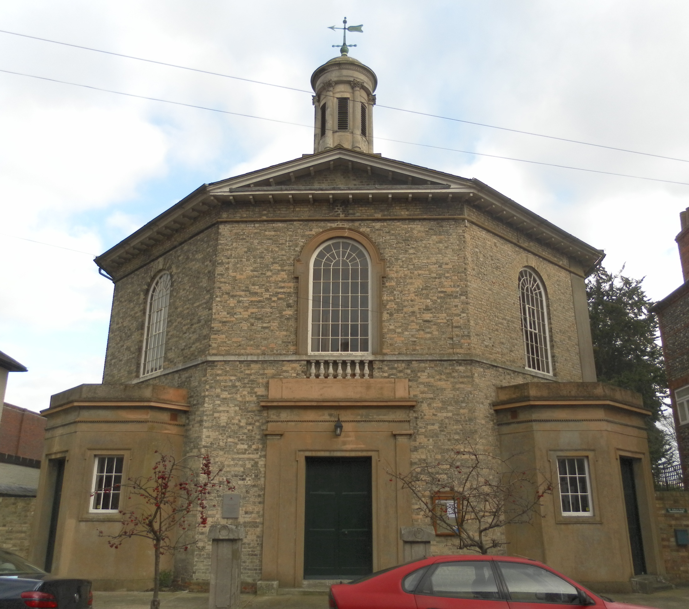 West front of St John the Evangelist's parish church, St John's Street, Chichester, West Sussex, England. Now redundant and in the care of the Churches Conservation Trust.